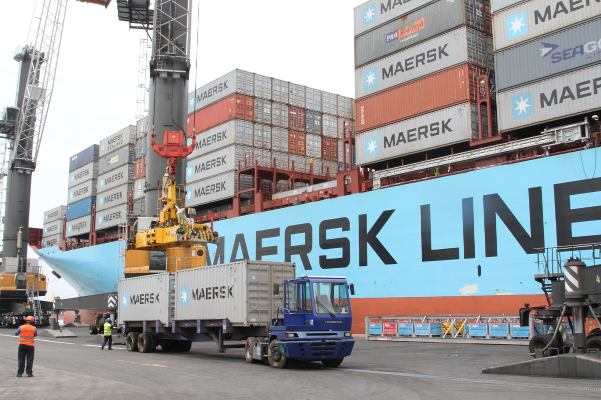 On 14 September, the Maersk Cape Coast arrived in Luanda, Angola. With her 249 Meters and a capacity of 4,500 TEU, the Maersk Cape Coast is the biggest container vessel ever to berth at an Angola port.